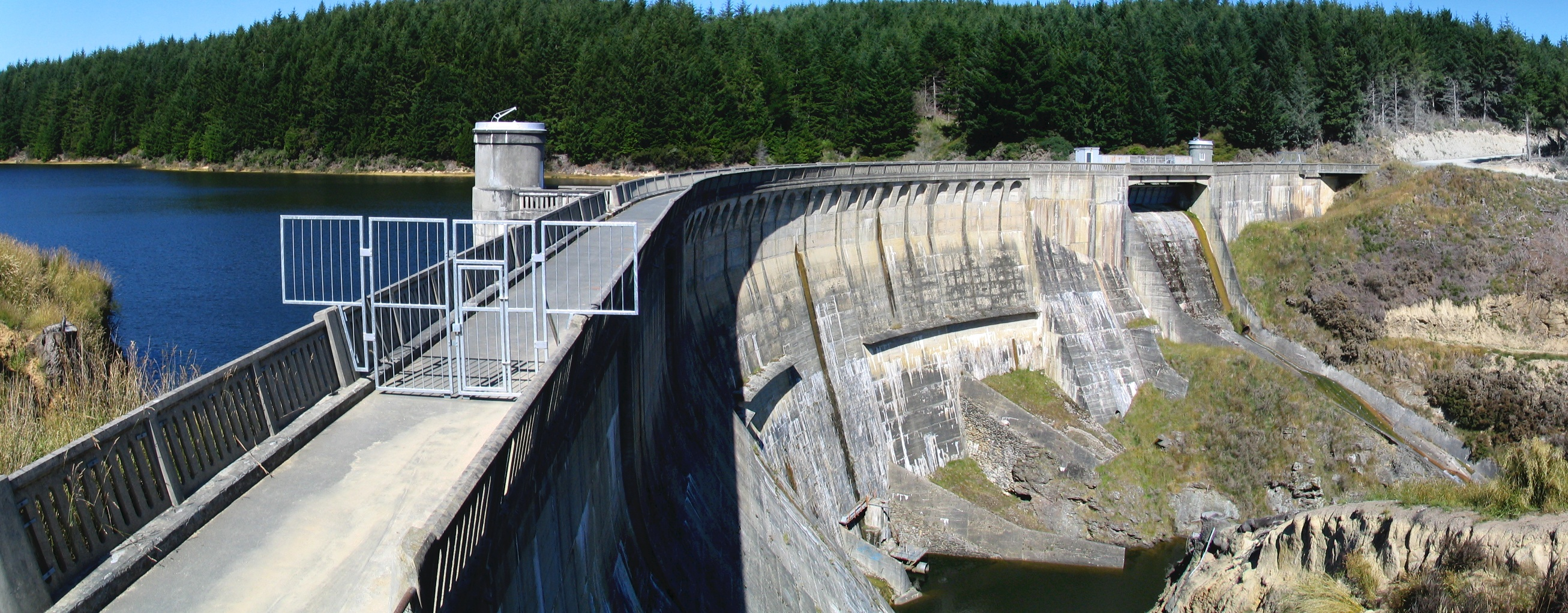 Mahinerangi Dam in Otago, New Zealand. 34m concrete arch dam, Lake Mahinerangi to the left. Panorama of three photos sitched with Hugin This image was created with Hugin